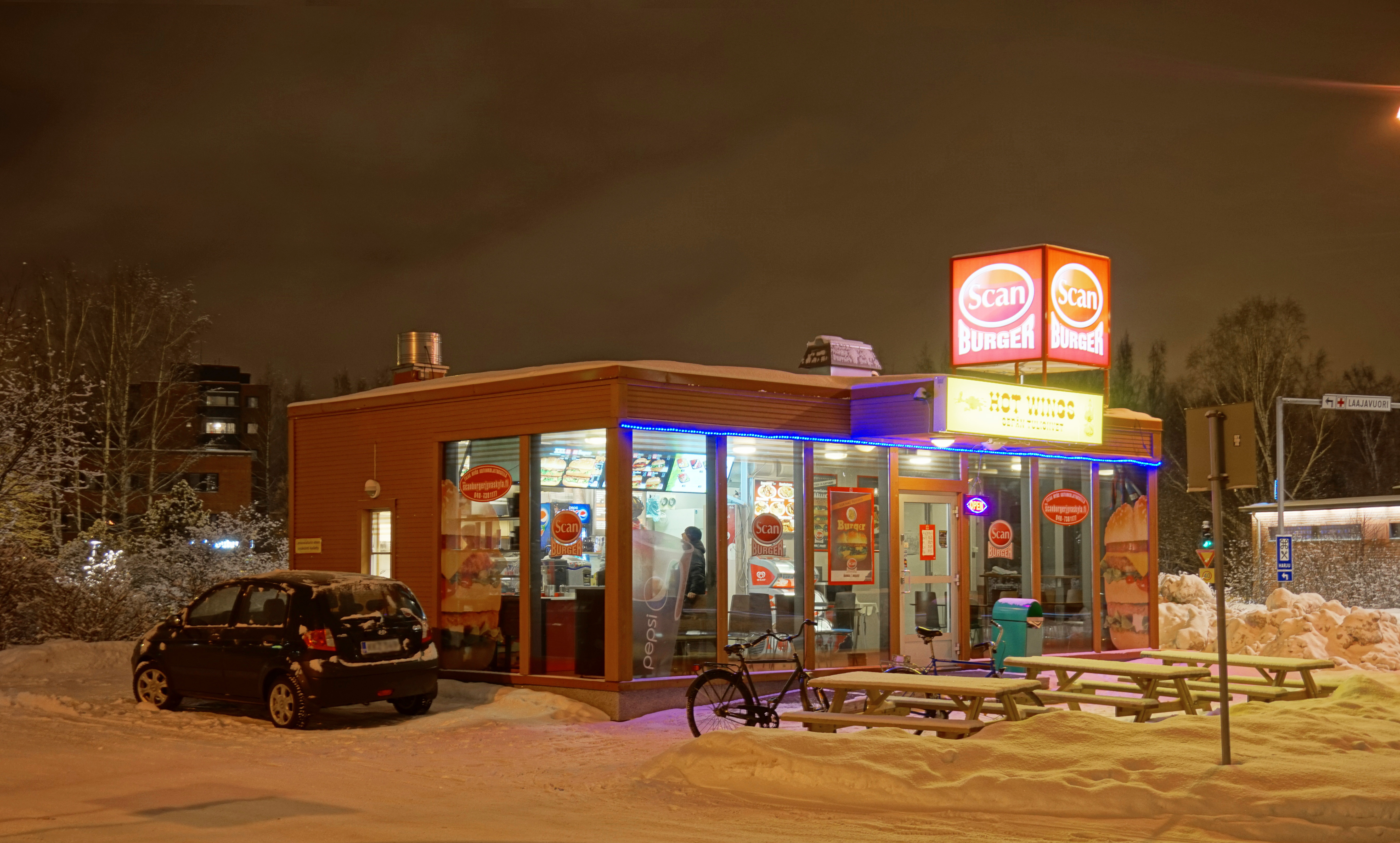 Scanburger fastfood reastaurant in Jyväskylä.This photograph was taken with a Sony ILCE-5000